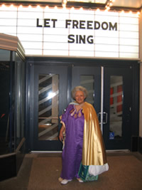 Carolivia Herron in front of Atlas Theatre at opening of opera Let Freedom Sing